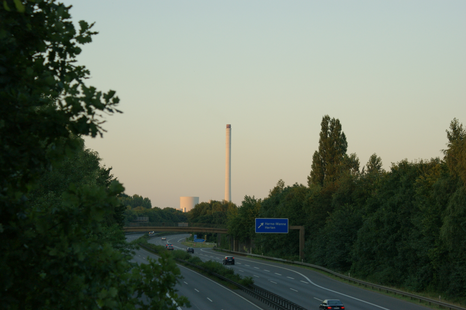 German "Autobahn" No. 42, in Herne. The view direction is to the east. In the background you can see the coal power plant STEAG.